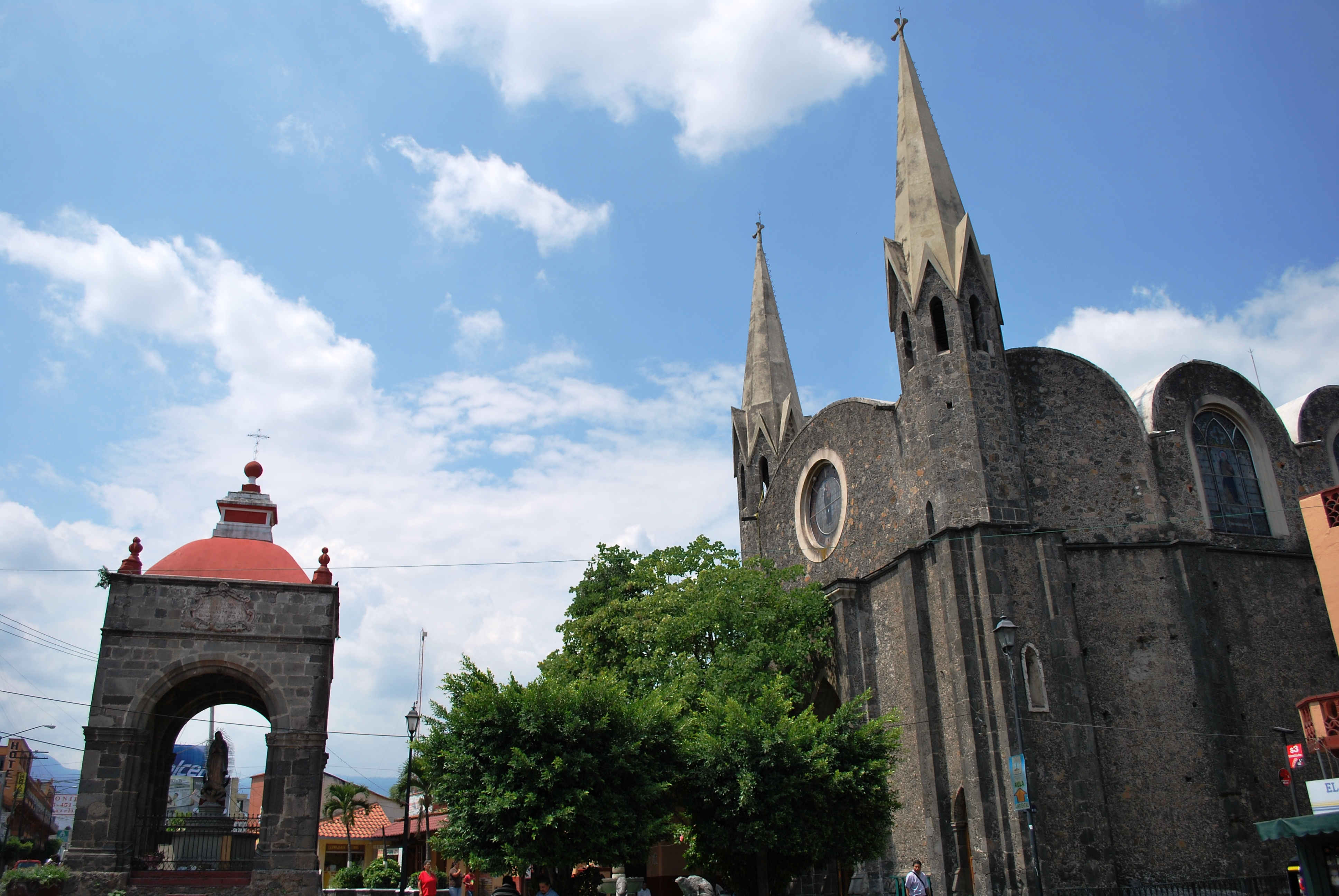 The Chapitel de Calvario Church with shrine to the Virgin of Guadalupe on Morelos Street in Cuernavaca, Morelos, Mexico